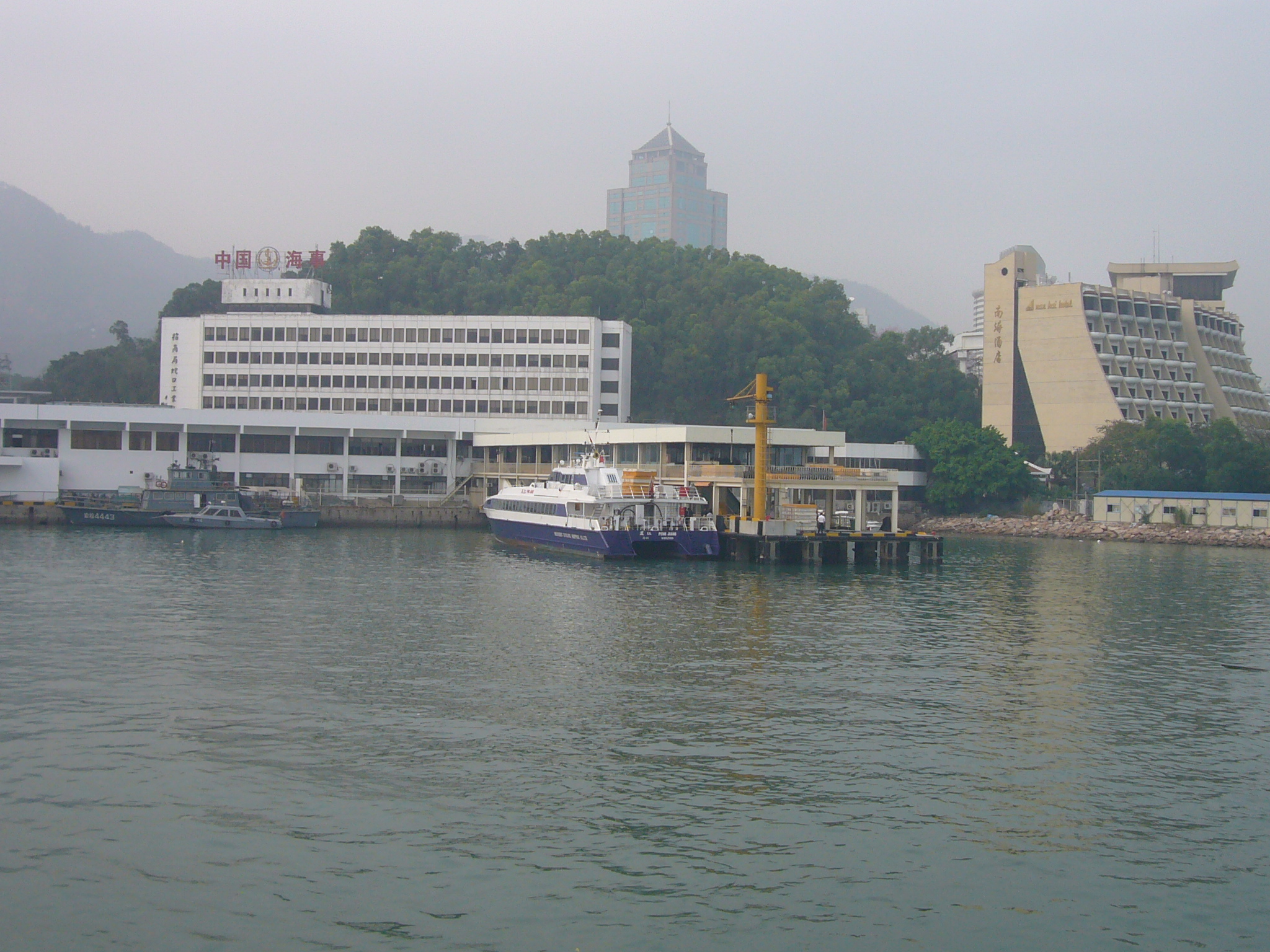 Shenzhen port - Departing to Zhuhai